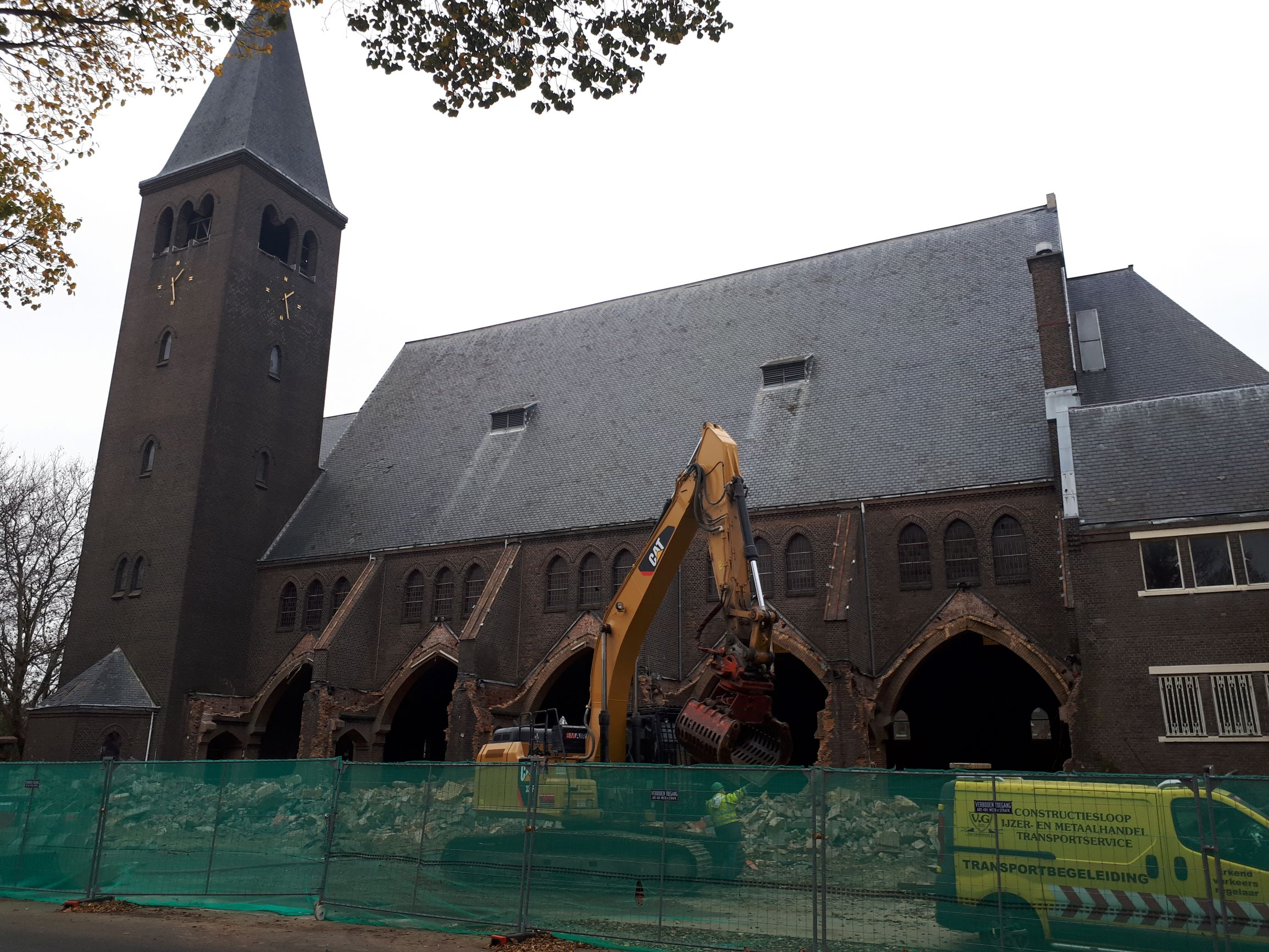 Sloop Allerheiligst Sacrementskerk Den Haag 1